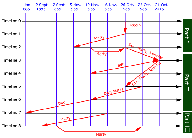 All successive Back to the Future timelines.